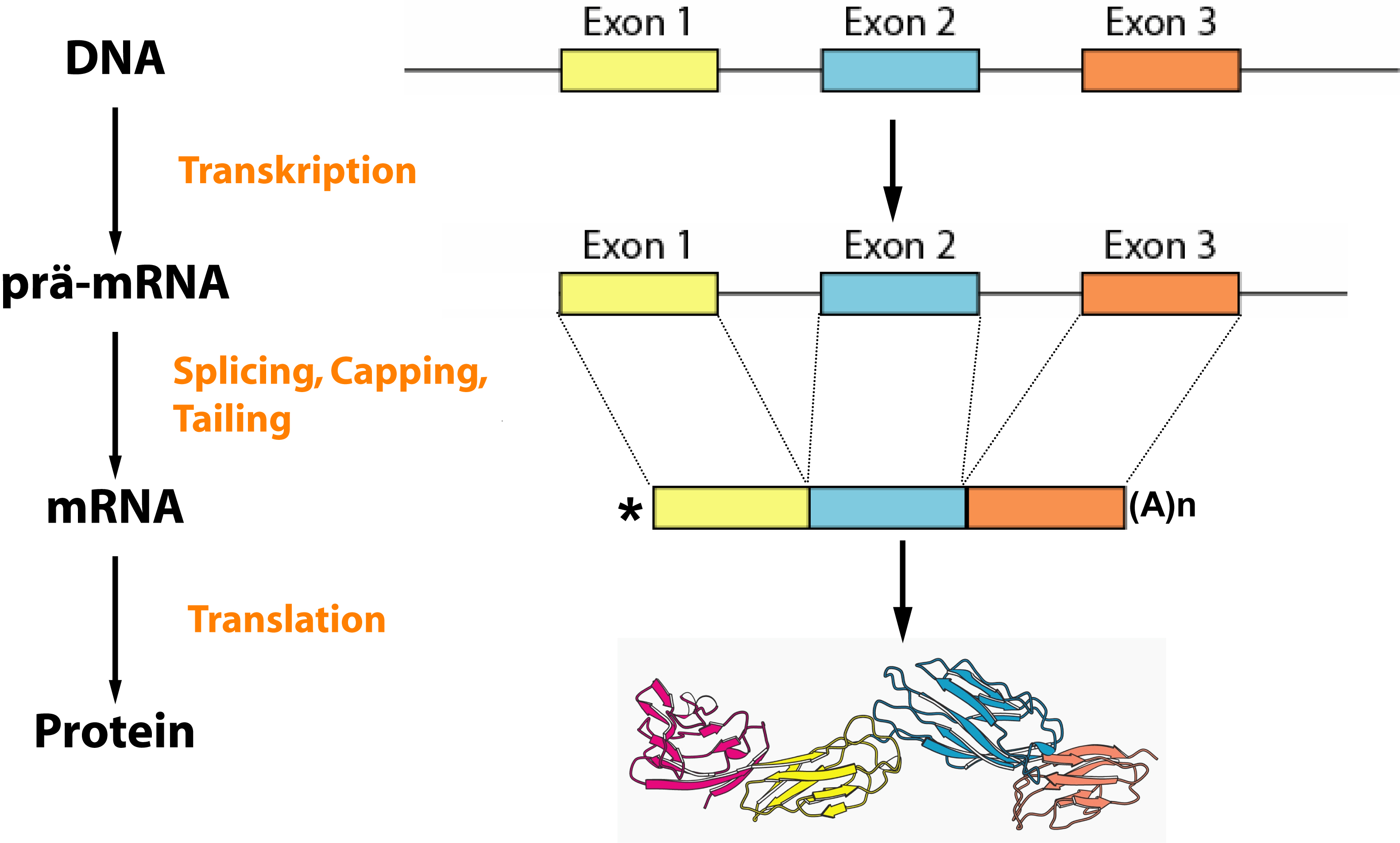 Eucaryotic gene expression